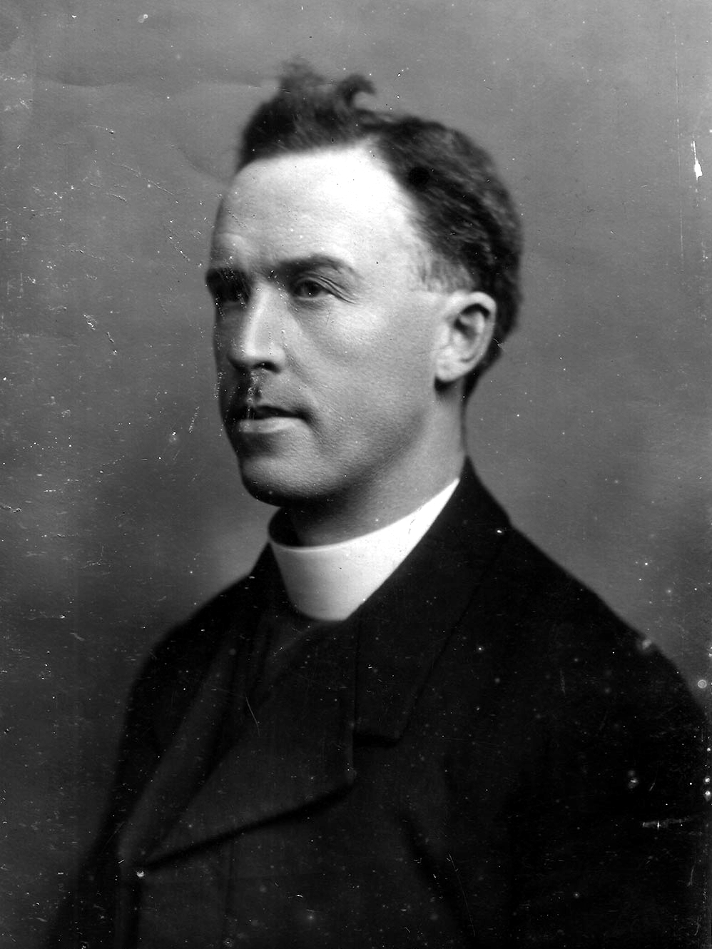 A portrait of Fr. O'Flanagan, probably from 1910 to 1912